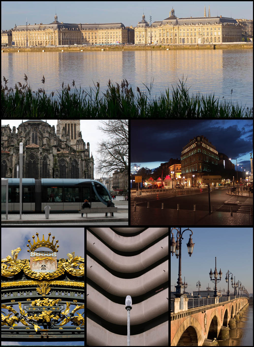 Images, from top, left to right: Place de la Bourse Bordeaux quais 04.jpg by Olivier Aumage. Le tramway Tramway Bordeaux.jpg by Véronique Debord. Tourny/Maison de Vin Bordeaux centre.jpg by Barbarellaa Bordeaux crest Bordeaux Couronne.jpg by Olivier Aumage, CC-BY-SA-2.0-fr Quartier Mériadeck Bordeaux Mériadeck.jpg by timtom.ch Pont de pierre Bordeaux Pont de Pierre.jpg by Olivier Omage.